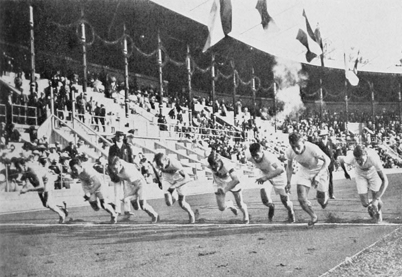 The start of the men's 800 metre final at the 1912 Summer Olympics. Ted Meredith (USA), Mel Sheppard (USA), Ira Davenport (USA), David Caldwell (USA), Mel Brock (CAN), Hanns Braun (GER), Clarence Edmundson (USA), Herbert Putnam (USA)